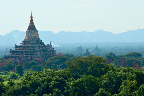 Bagan, one of the oldest pagodas in Myanmar.